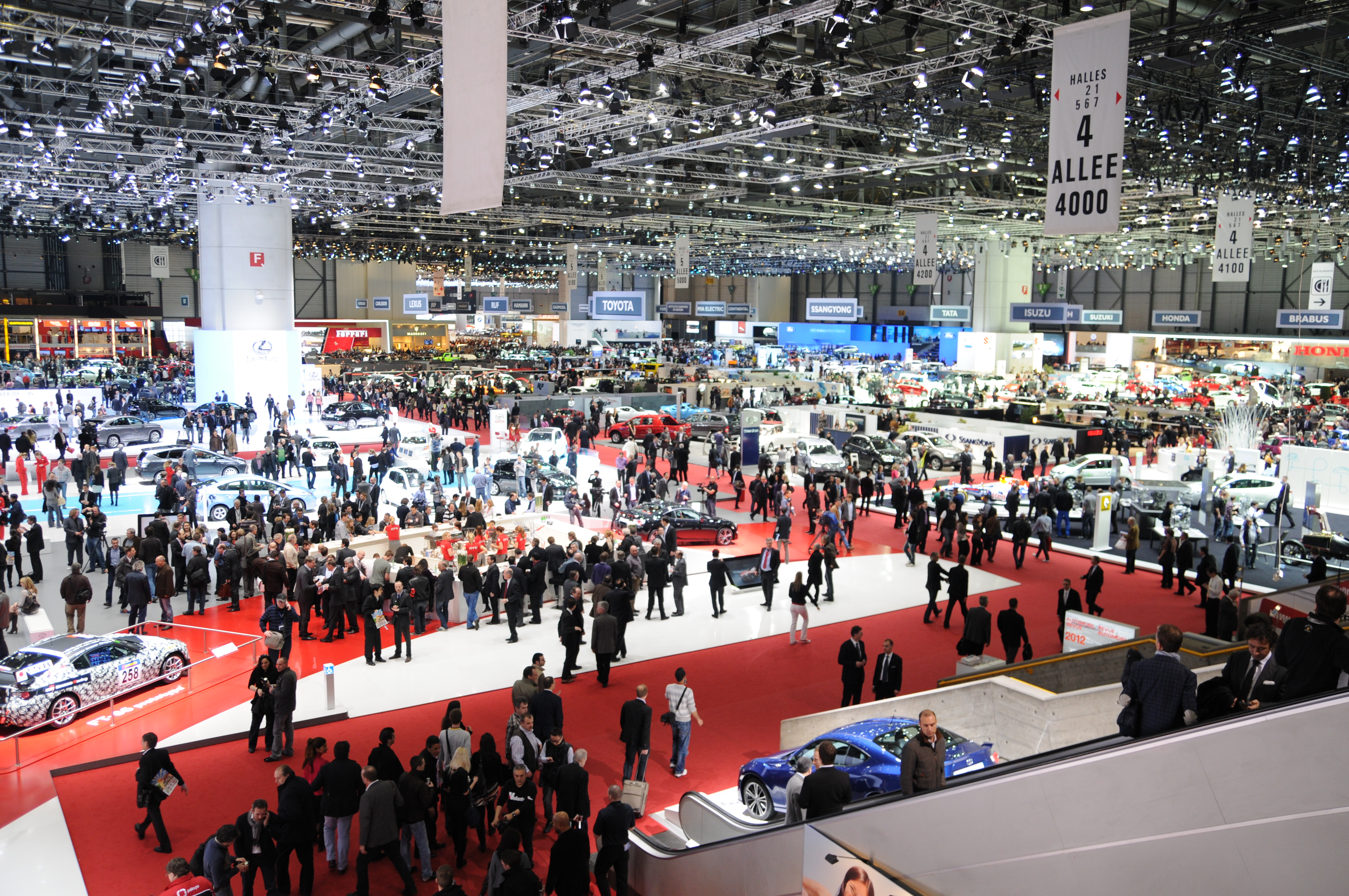 Geneva Motor Show 2012 (photos taken on the second press day)